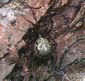 female Enoplognatha abrupta from Okinawa.